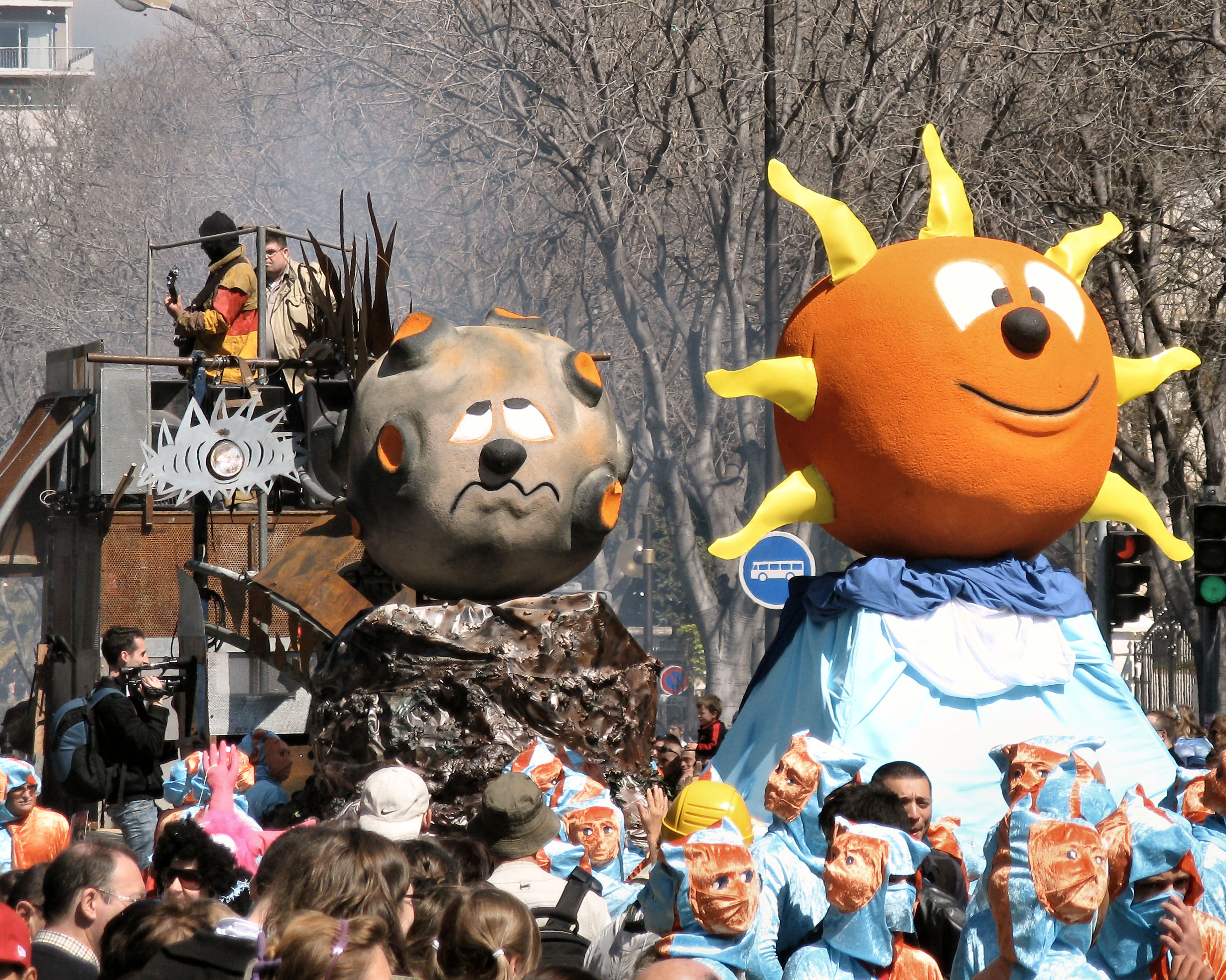 a carnival float from Marseille carnival in 2009 featuring a happy sun and a not so happy moon